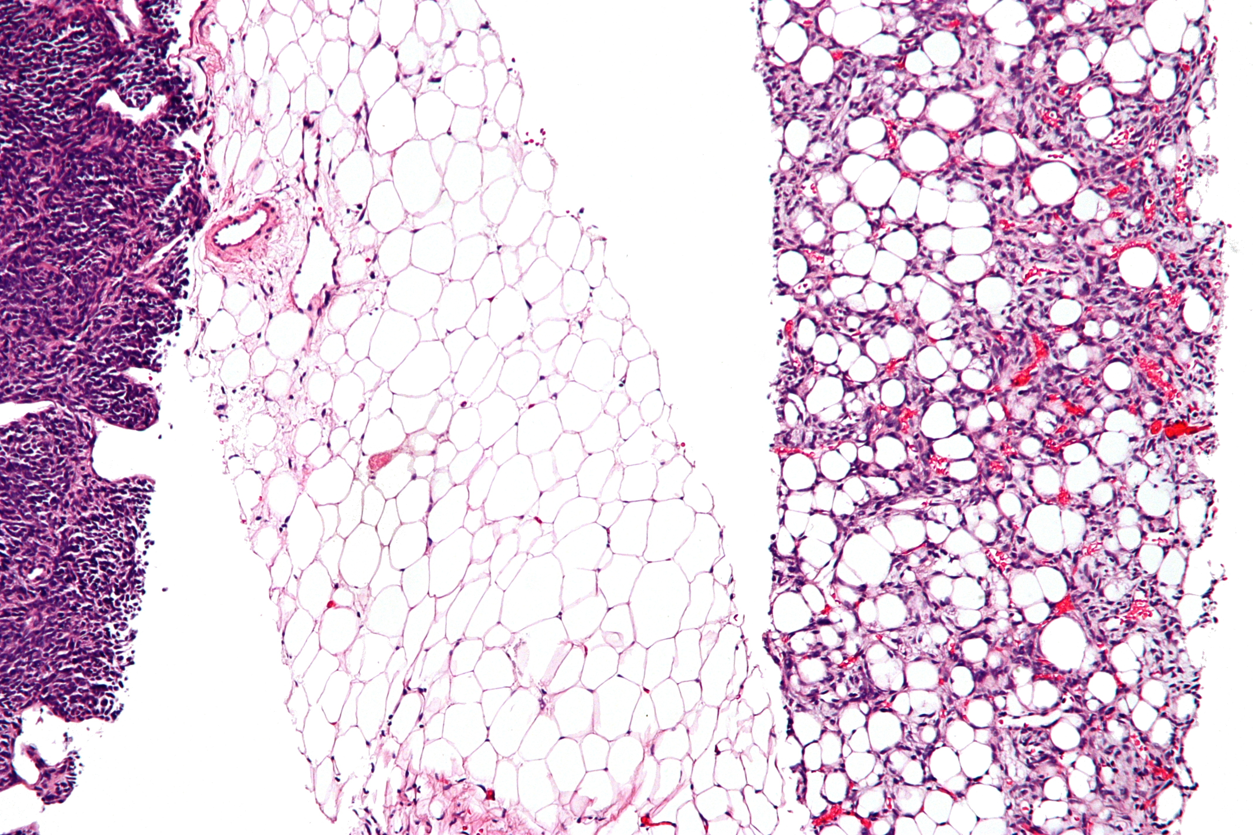 Intermediate magnification micrograph of a dedifferentiated liposarcoma. H&E stain. Related images Intermed. mag. High mag. Very high mag. Very high mag.